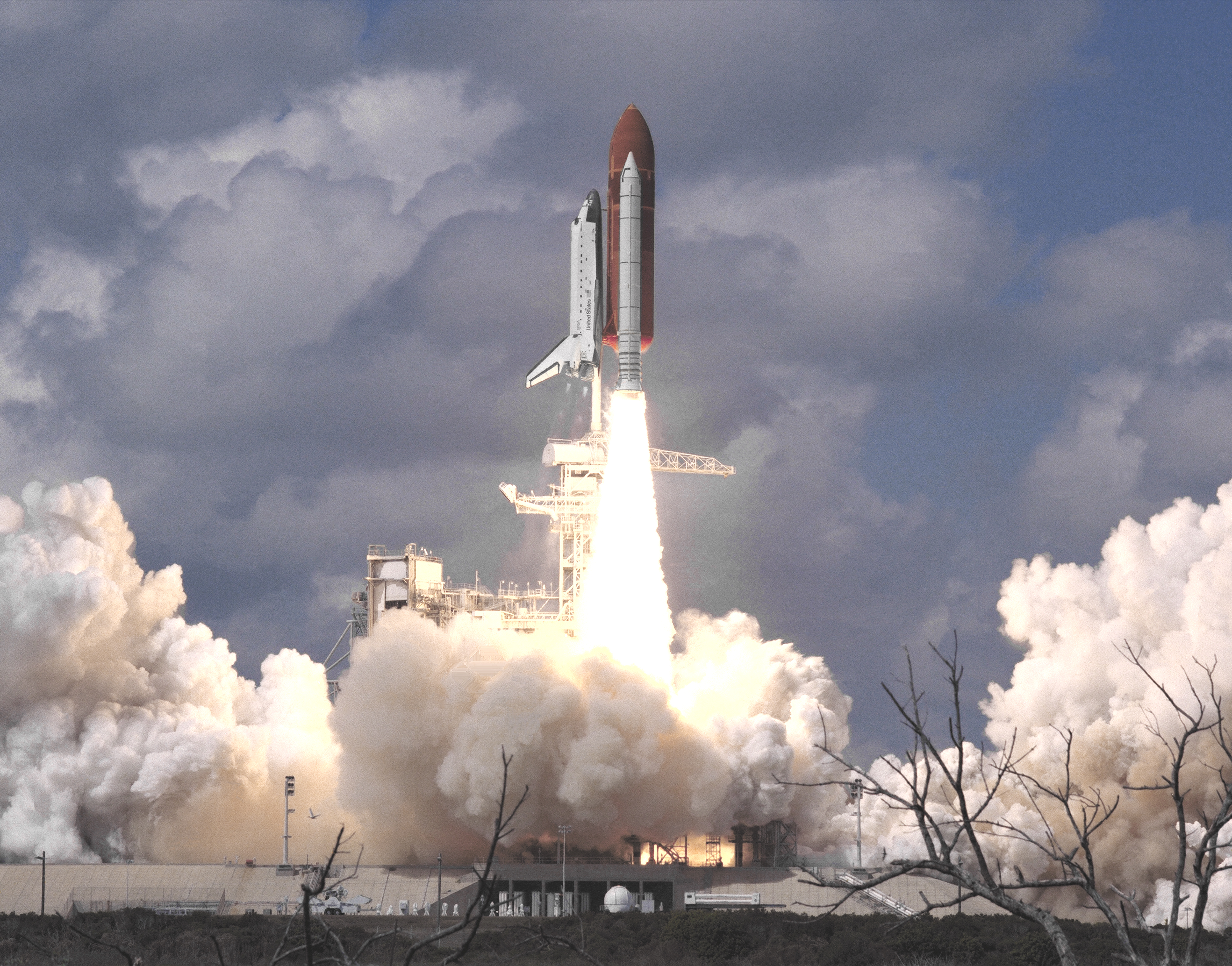 Raketoplán Discovery štartuje na misiu STS-26, prvú misiu po 2,5 ročnej prestávke spôsobenej tragédiou raketoplánu Challenger/Space Shuttle Discovery lifted off from Pad B, Launch Complex 39, Kennedy Space Center, at 11:37 a.m. EDT on September 29, 1988, 975 days after the Challenger disaster.